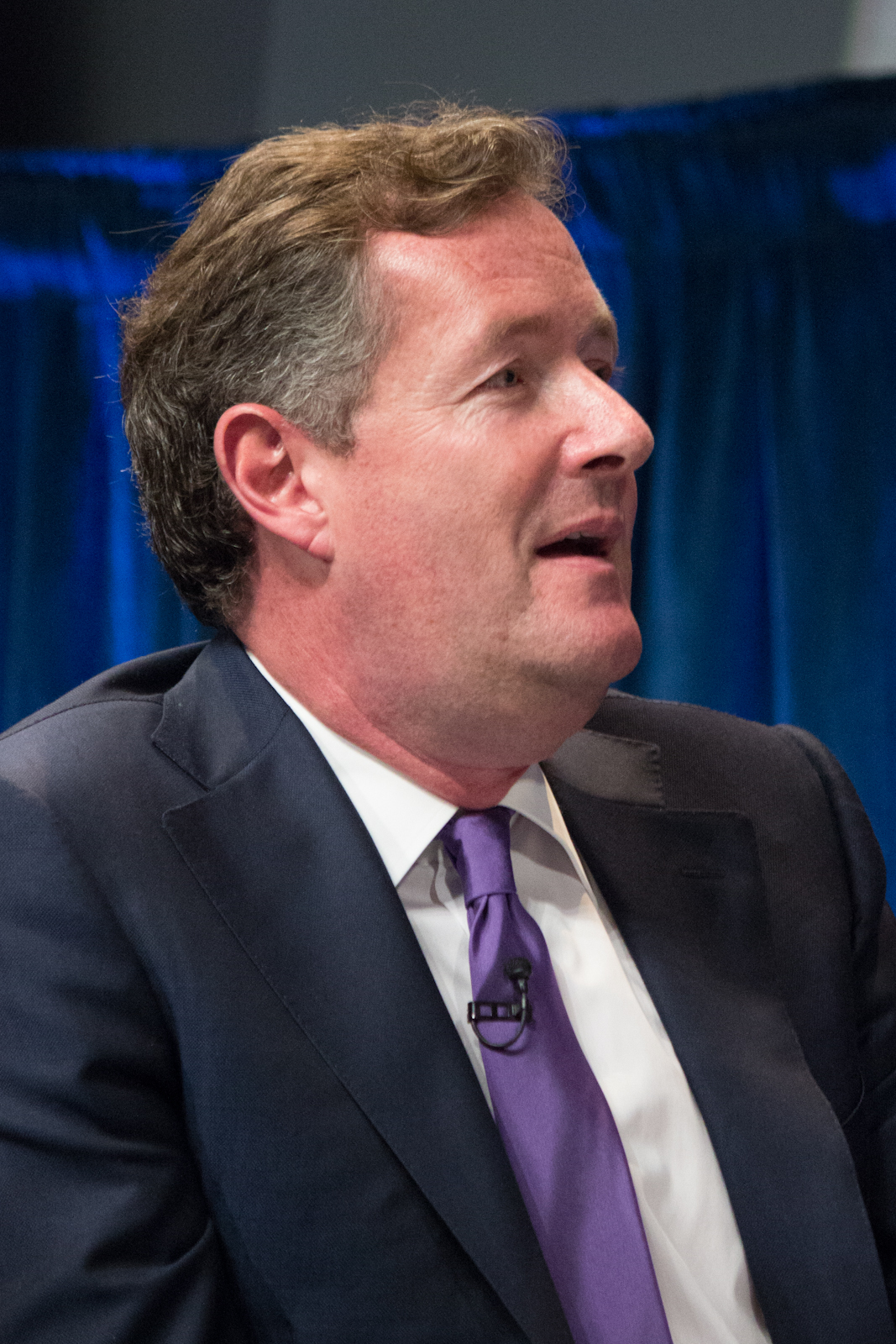 Piers Morgan at the PaleyFest 2013 panel on the TV show "The Newsroom"